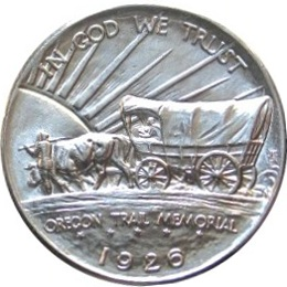 Reverse side of Oregon Trail memorial half dollar commemorative coin